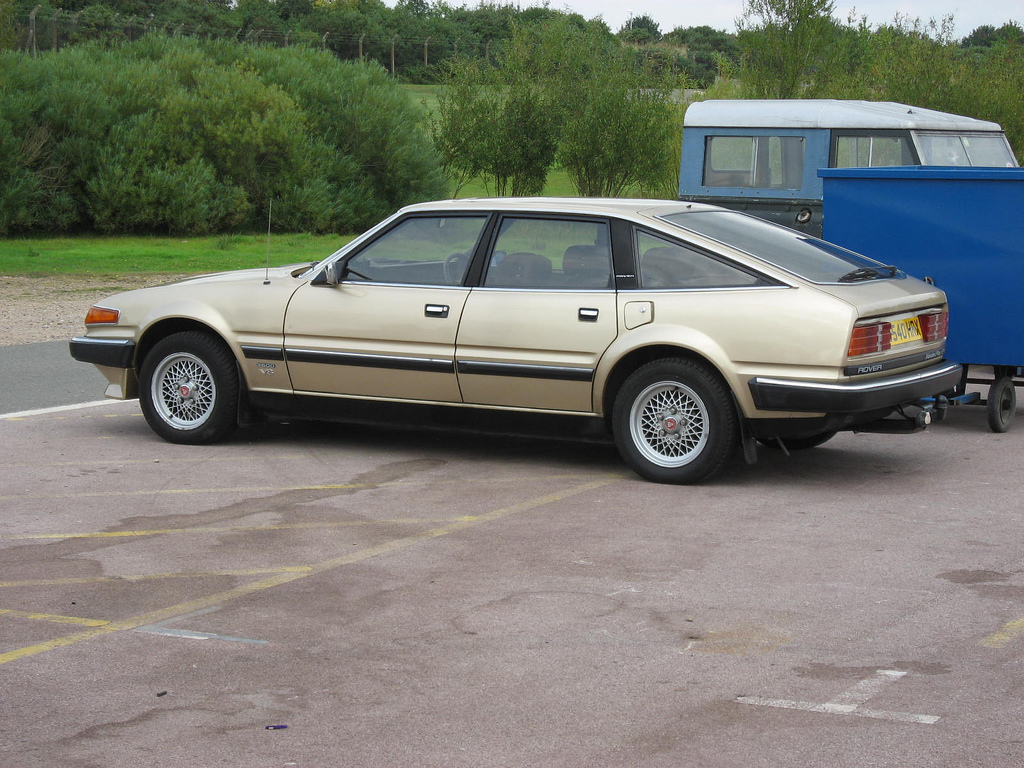 Rover sd1 club day at the British motoring heritage museum gaydon .